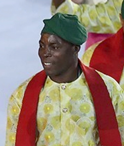 Benin at the 2016 Summer Olympics opening ceremony